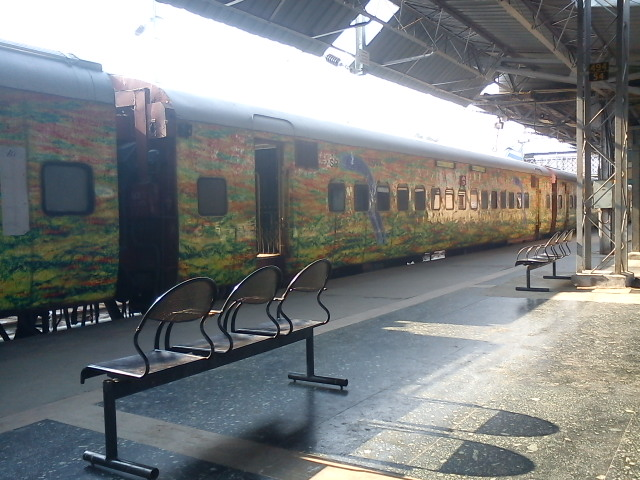 MADURAI DURONTO IN MADURAI JUNCTION